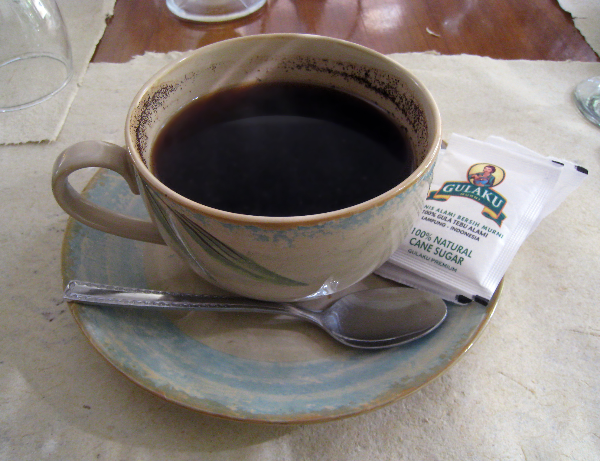 A cup of Java. Javanese Kopi Tubruk, Javanese Arabica coffee without separating the coffee residue. Roemahkoe Heritage Hotel breakfast, Surakarta, Central Java, Indonesia.